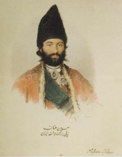 Mohammad-Hossein Khan Moqaddam Maraqei (Ajudanbashi) Persian envoy to Europe in Qajar era